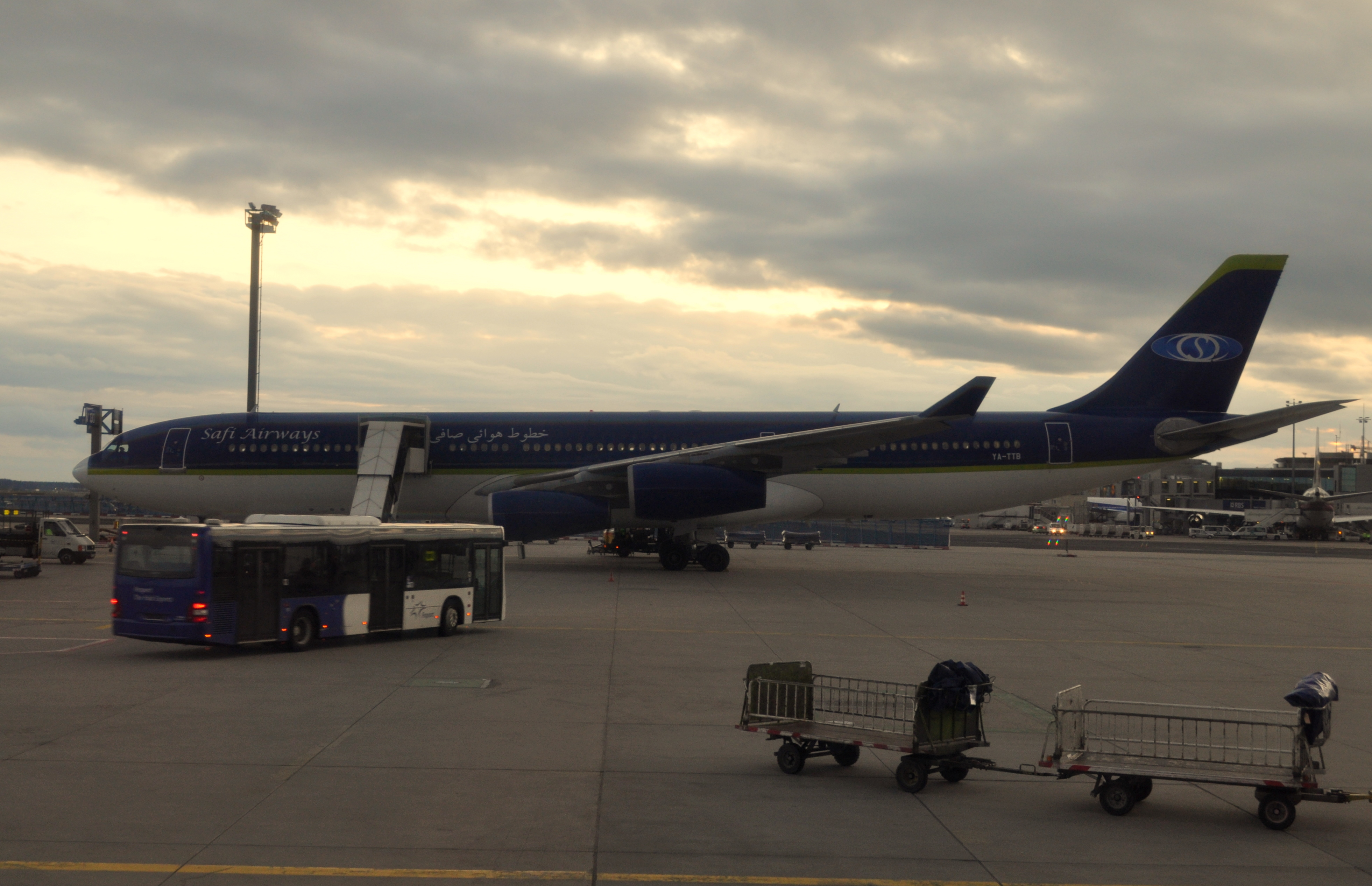 Safi Airways Airbus A340 at Frankfurt Intl Airport on Sunday evening (1.4.). The plane is preparing departure back to Kabul.